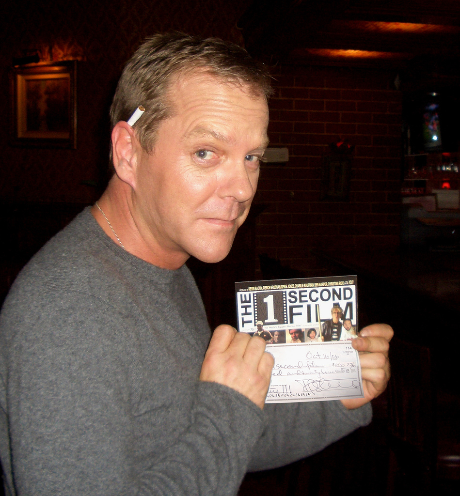 Kiefer Sutherland holding a check for The 1 Second Film